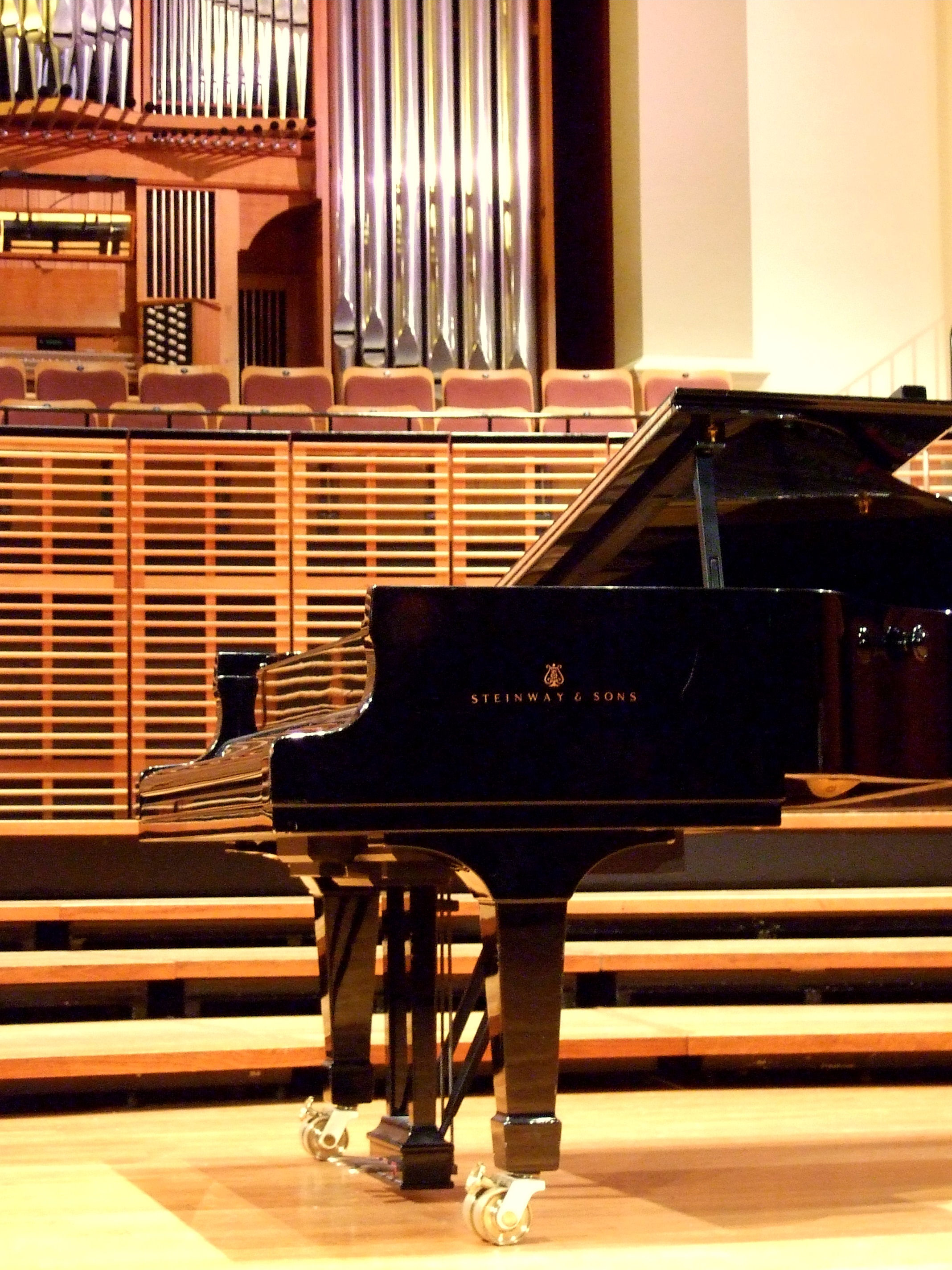 A Steinway & Sons Piano, in the Vebrugghen Hall of the Sydney Conservatorium of Music.